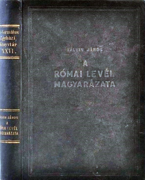 Kálvin mű